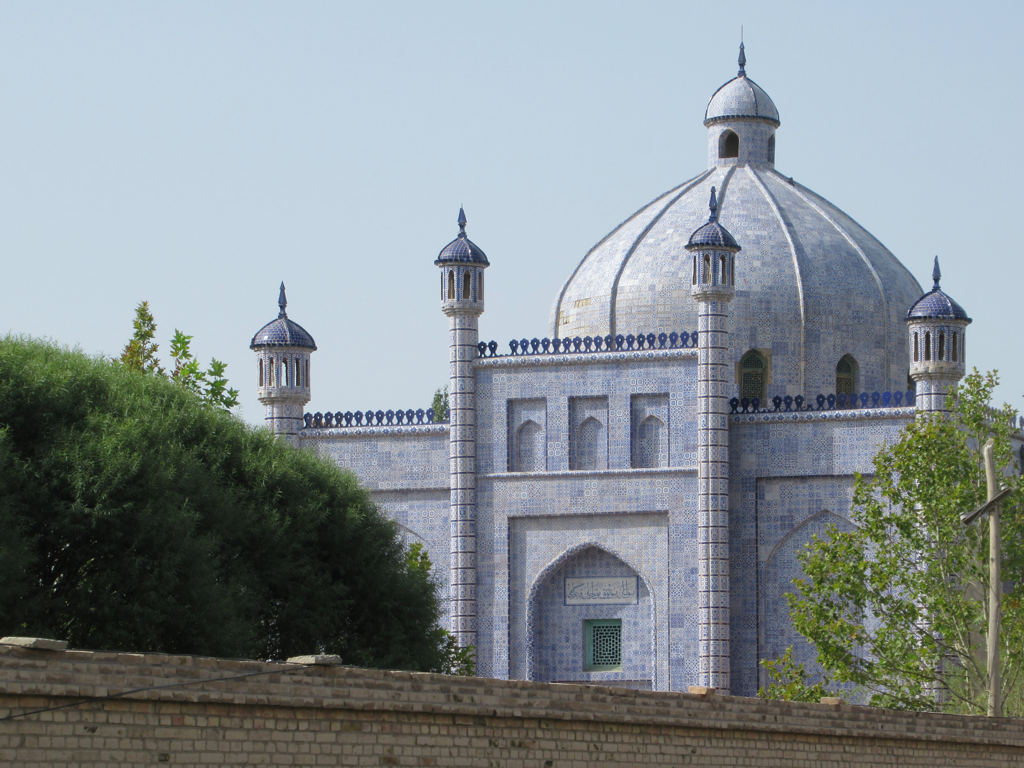 The Tomb of Sultan Satuk Bughra Khan at Artush near Kashgar, Xinjiang, China, contains the tomb of the first Kashgar ruler to convert to Islam.